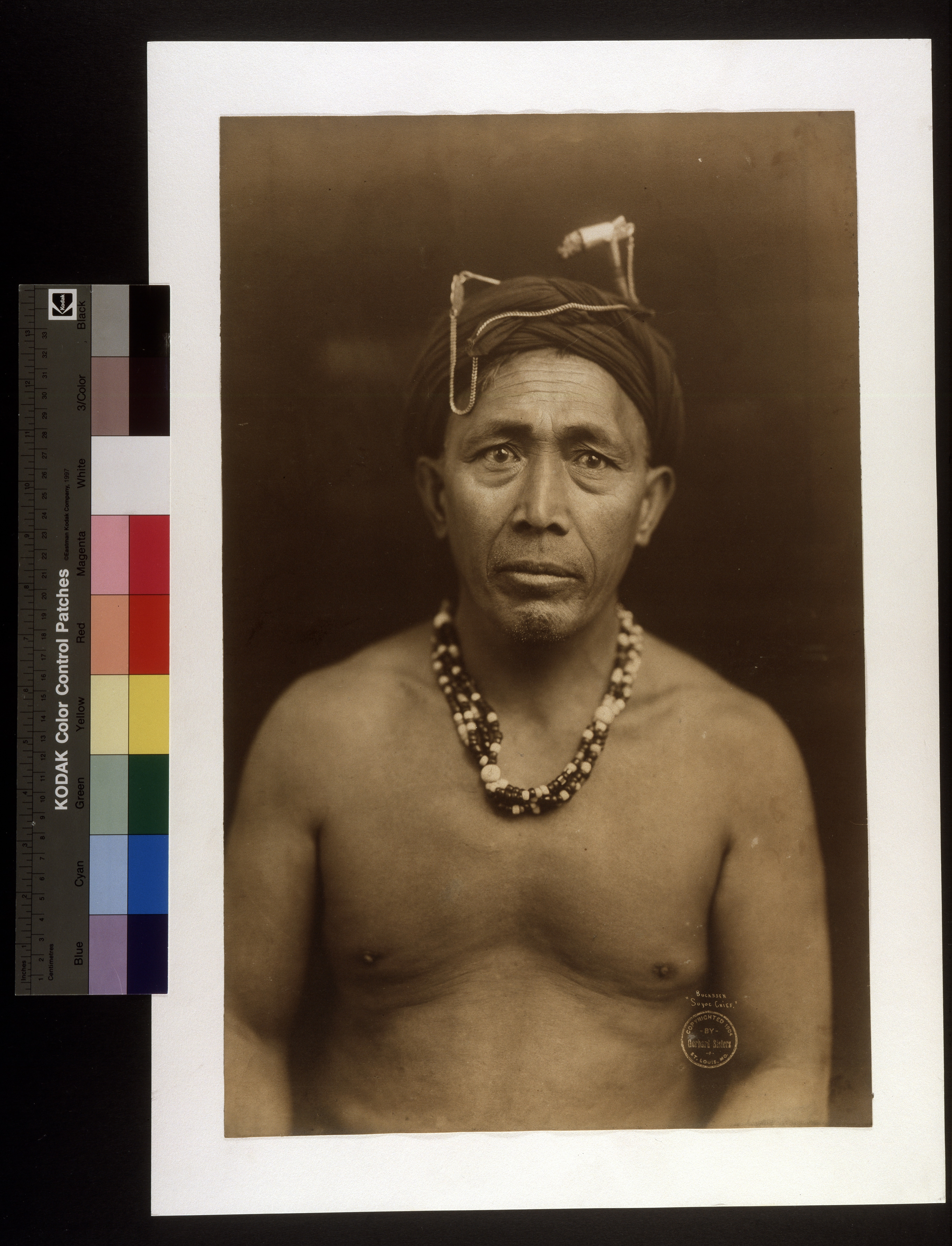 "Suyoc" is a town in the Benguet region. This man is Benguet (Kankanaey subtribe) Title: Bucassen, Suyoc Chief. (Taken during the 1904 World's Fair).